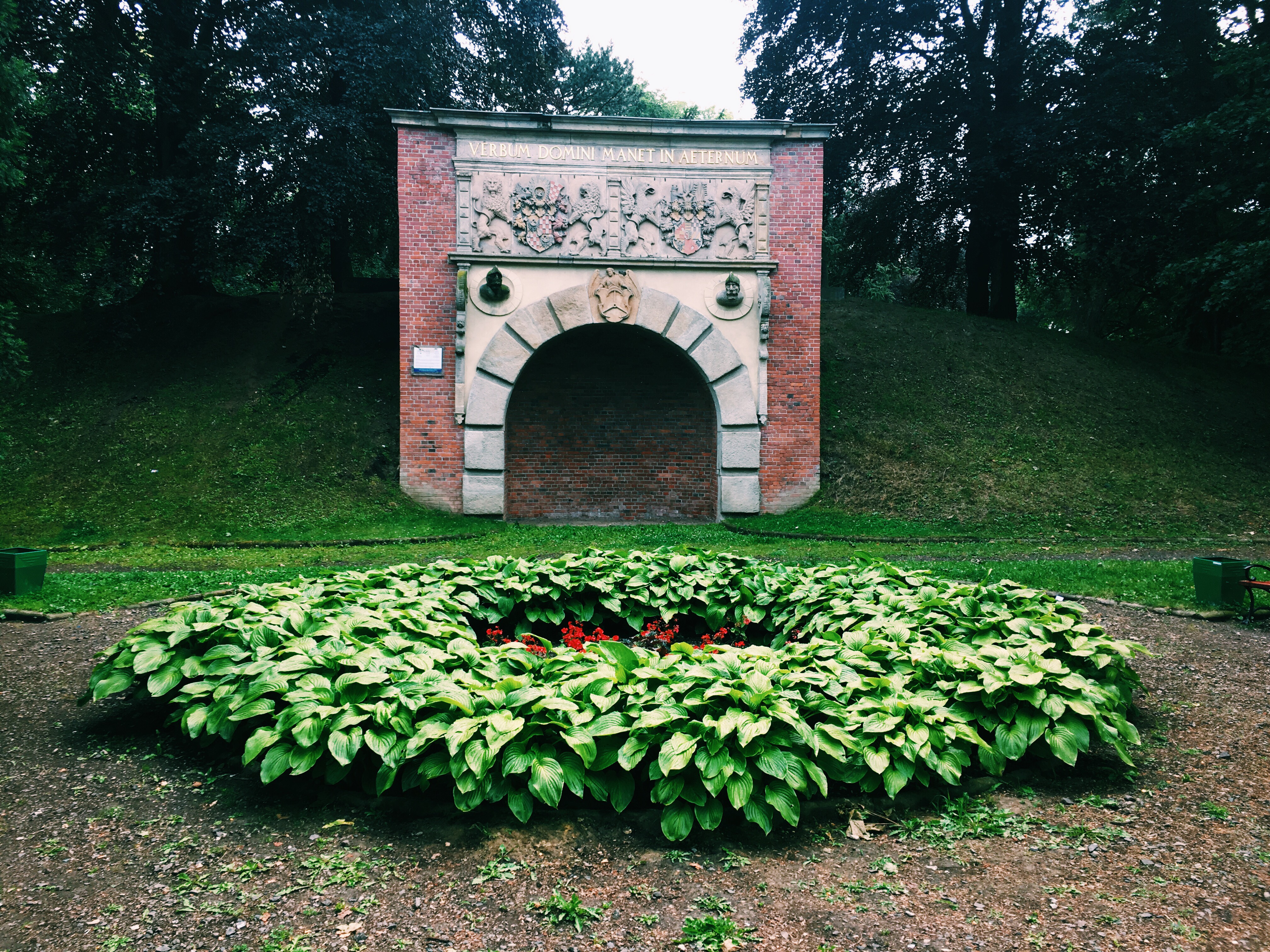 Odranian Gate in the town of Brzeg.